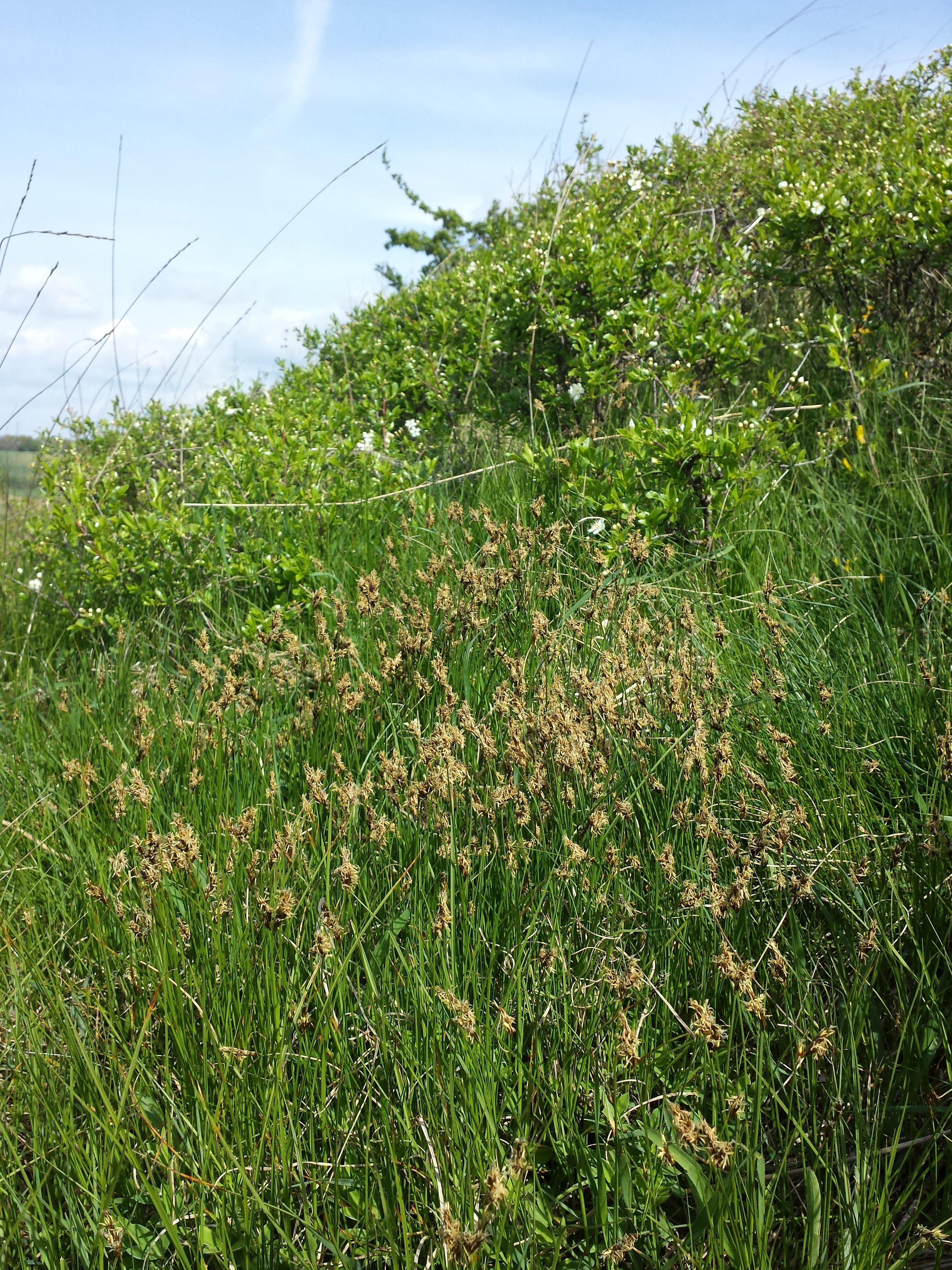 Habitat Taxonym: Carex praecox ss Fischer et al. EfÖLS 2008 ISBN 978-3-85474-187-9 Location: Altenbergen to the North of Ladendorf, district Mistelbach, Lower Austria - ca. 290 m a.s.l. Habitat: slope